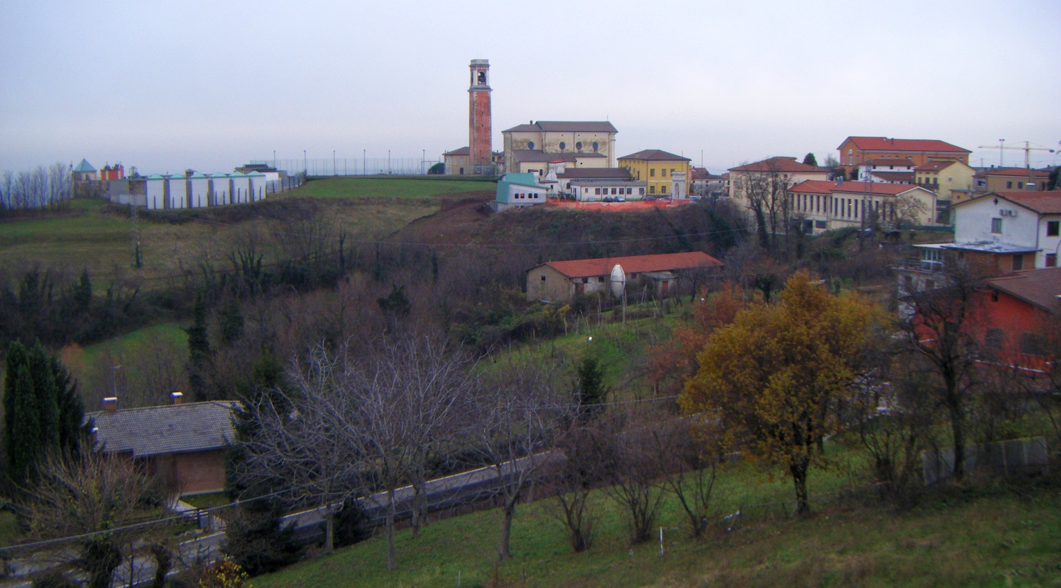 San Giorgio di Perlena